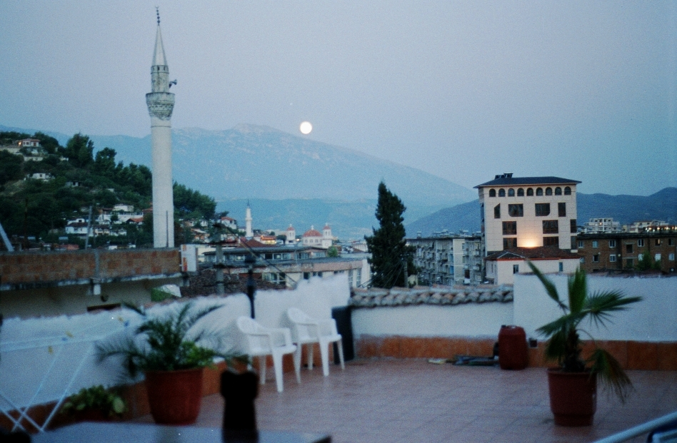 Berat, Albania, with Mount Tomorr in the background